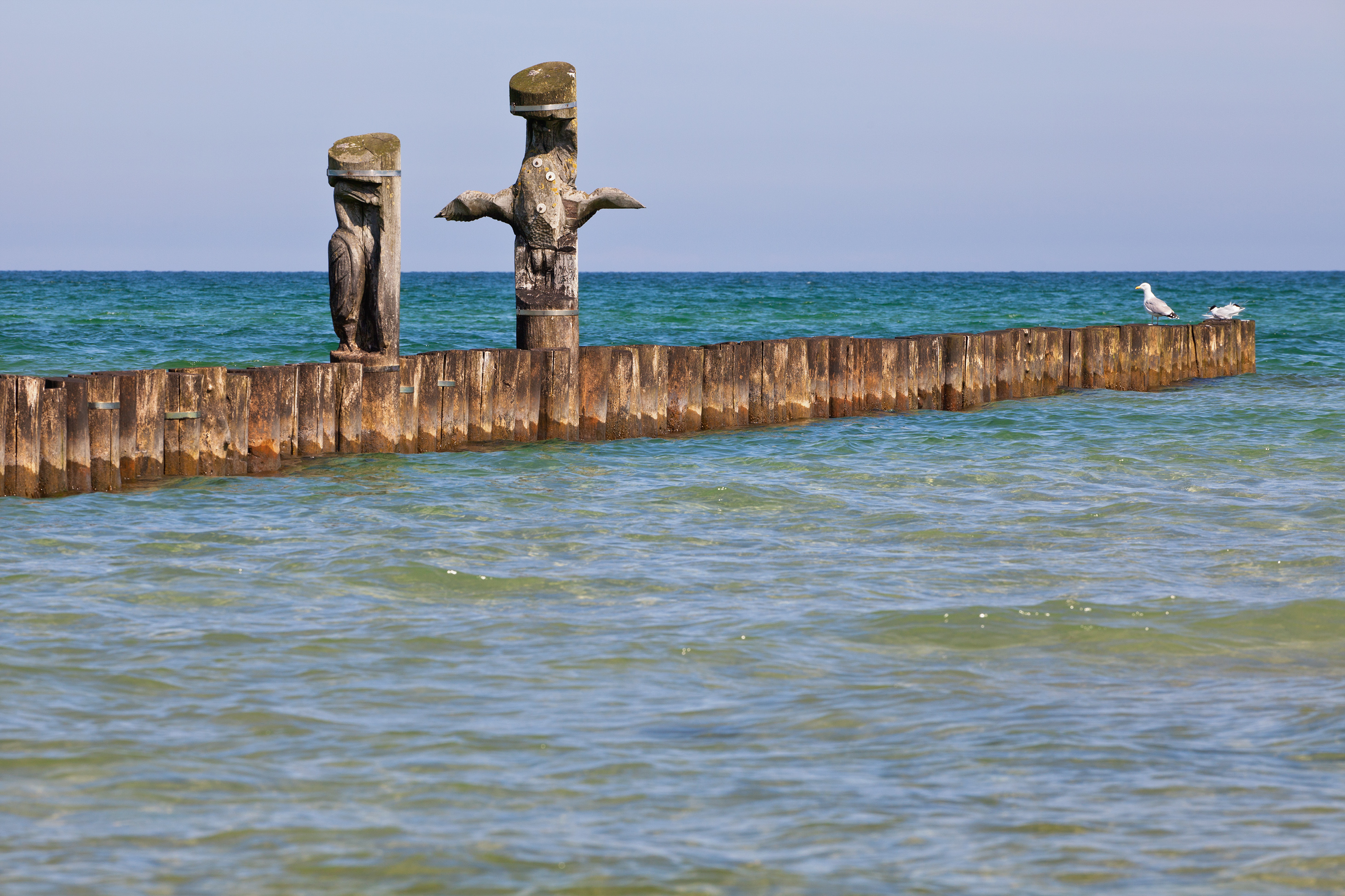 Groynes near Zingst, Germany